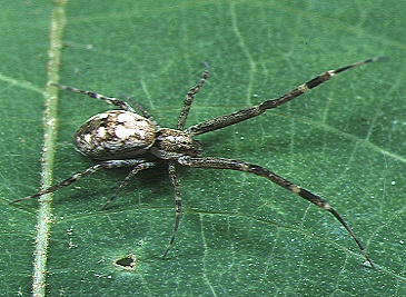 female Octonoba yaeyamensis from Okinawa.